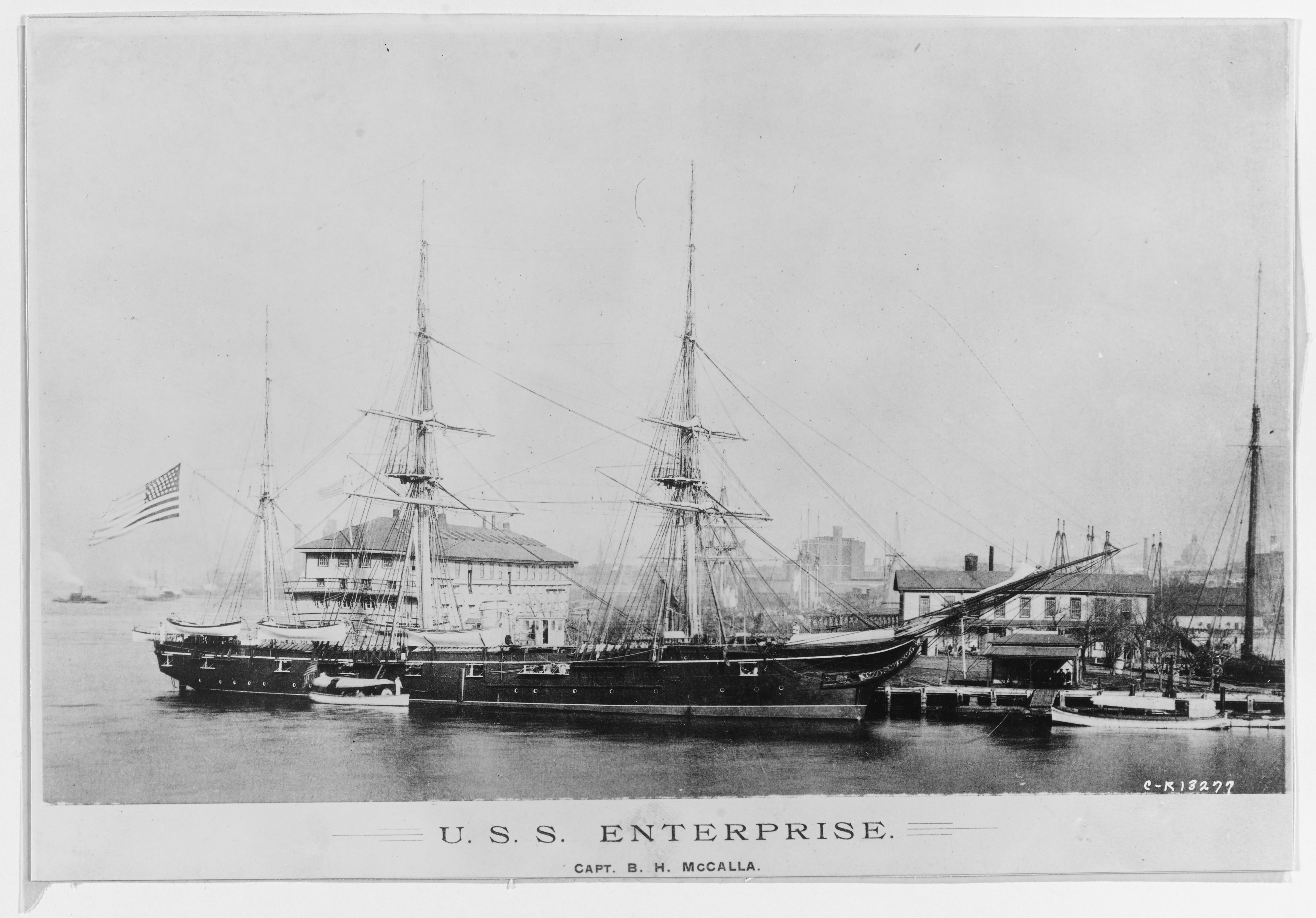 USS Enterprise at the New York Navy Yard, circa spring 1890, when she was commanded by Commander Bowman H. McCalla. The receiving ship Vermont is in the background. Photographed by E.H. Hart, New York City. U.S. Naval Historical Center Photograph.